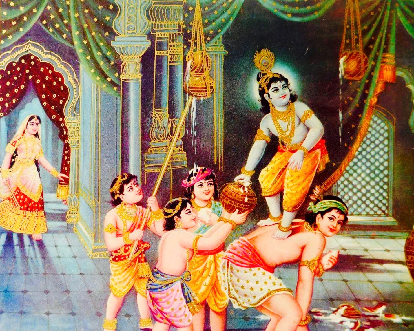 Here, the scene is set in a very Mughal-looking palace (bazaar art, c.1950's) Source: ebay, June 2012